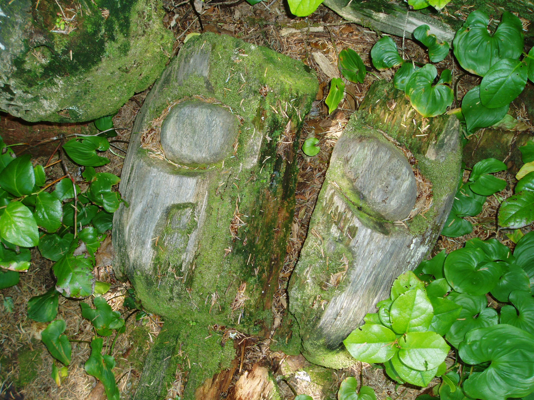 old, fallen totem pole, Kyuquot/Checleset First Nations, near Battle Bay, Brooks Peninsula Marine Provincial Park, West coast of northern Vancouver Island, BC, CA